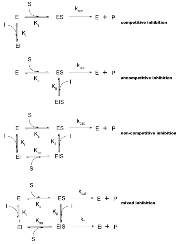 types of enzyme inhibition